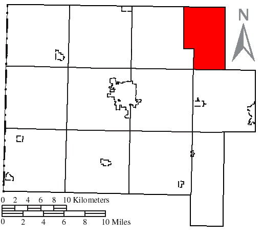 Made by the US Census and modified by myself